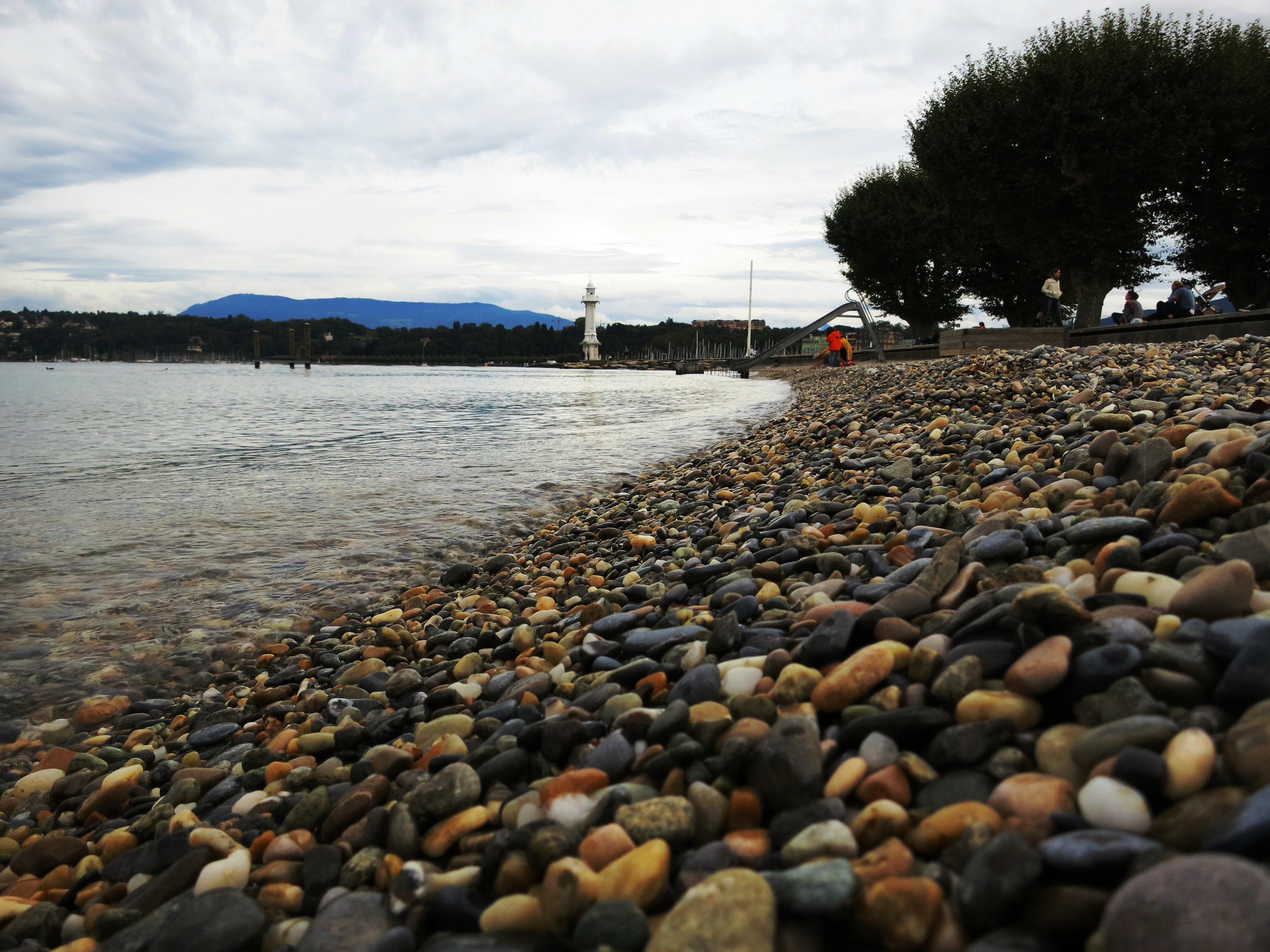 Bains des Pâquis